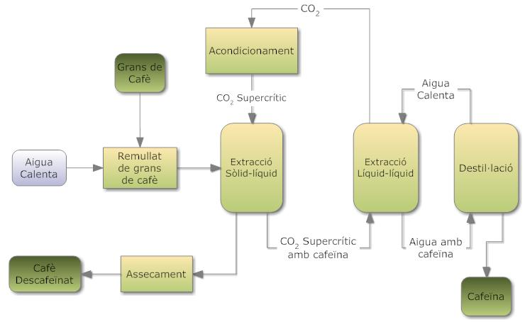 Flow diagram carbon dioxide supercritic decaffeination.